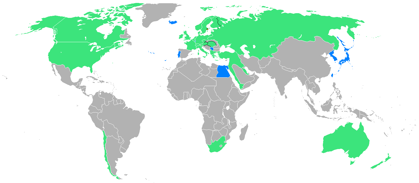 Countries which participated in the 1912 Summer Olympics, derived from blank world map and Image:1912 Summer Olympic games countries.png. Blue = Participating for the first time Green = Have previously participated. Yellow square is host city (Stockholm).